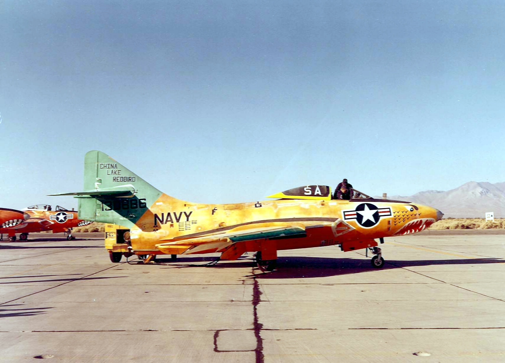 A U.S. Navy Grumman QF-9J Cougar (BuNo 138886) of the "Redbird Squadron" at Naval Air Weapons Station, China Lake, California (USA) sits on a flight line. This particular aircraft, after a long and varied service life was part of the NOLO (No Live Operator) program. She flew twenty successful NOLO flights and crashed on the 21st flight.